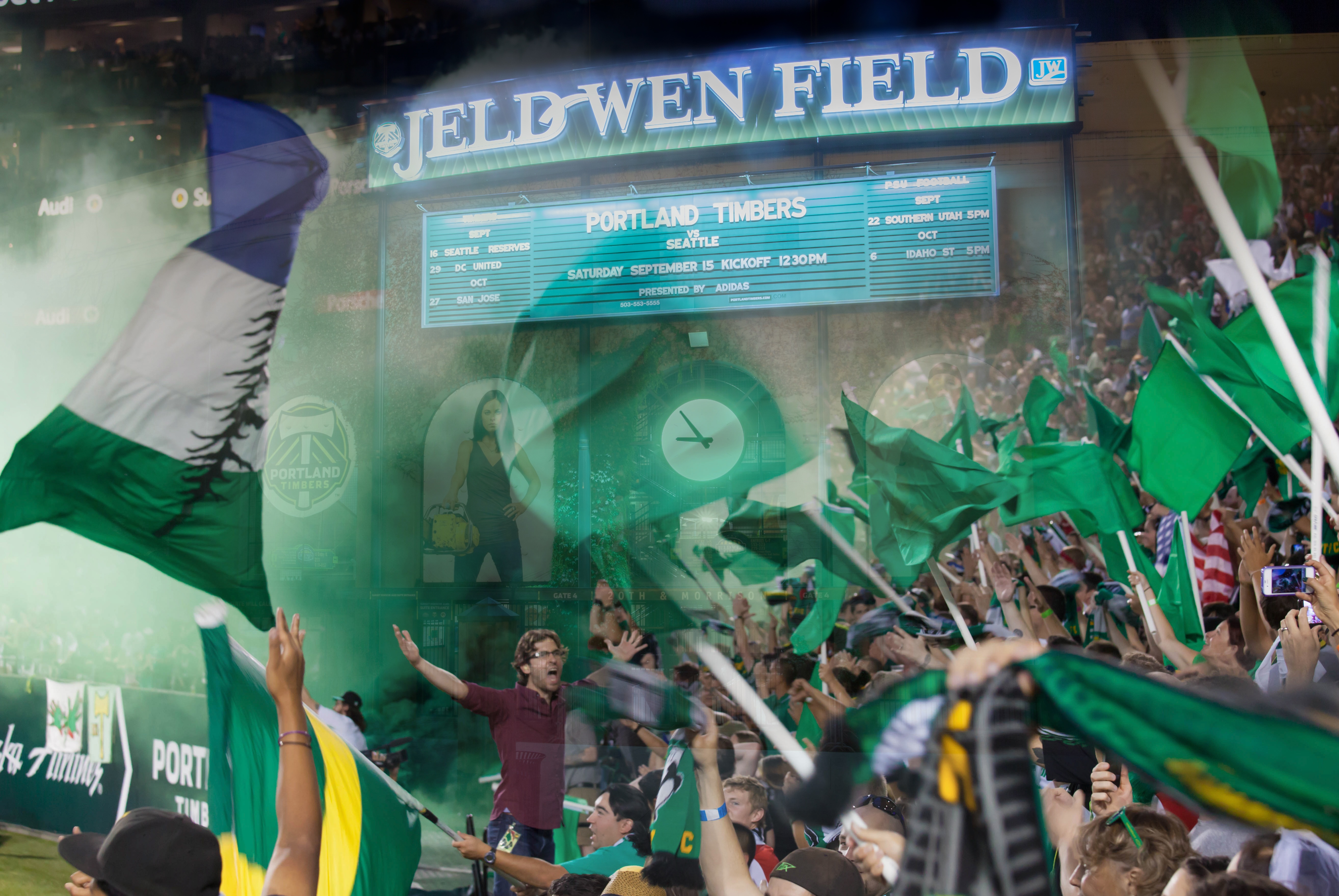 Bringing the Cascadia Cup Home, Portland, OR